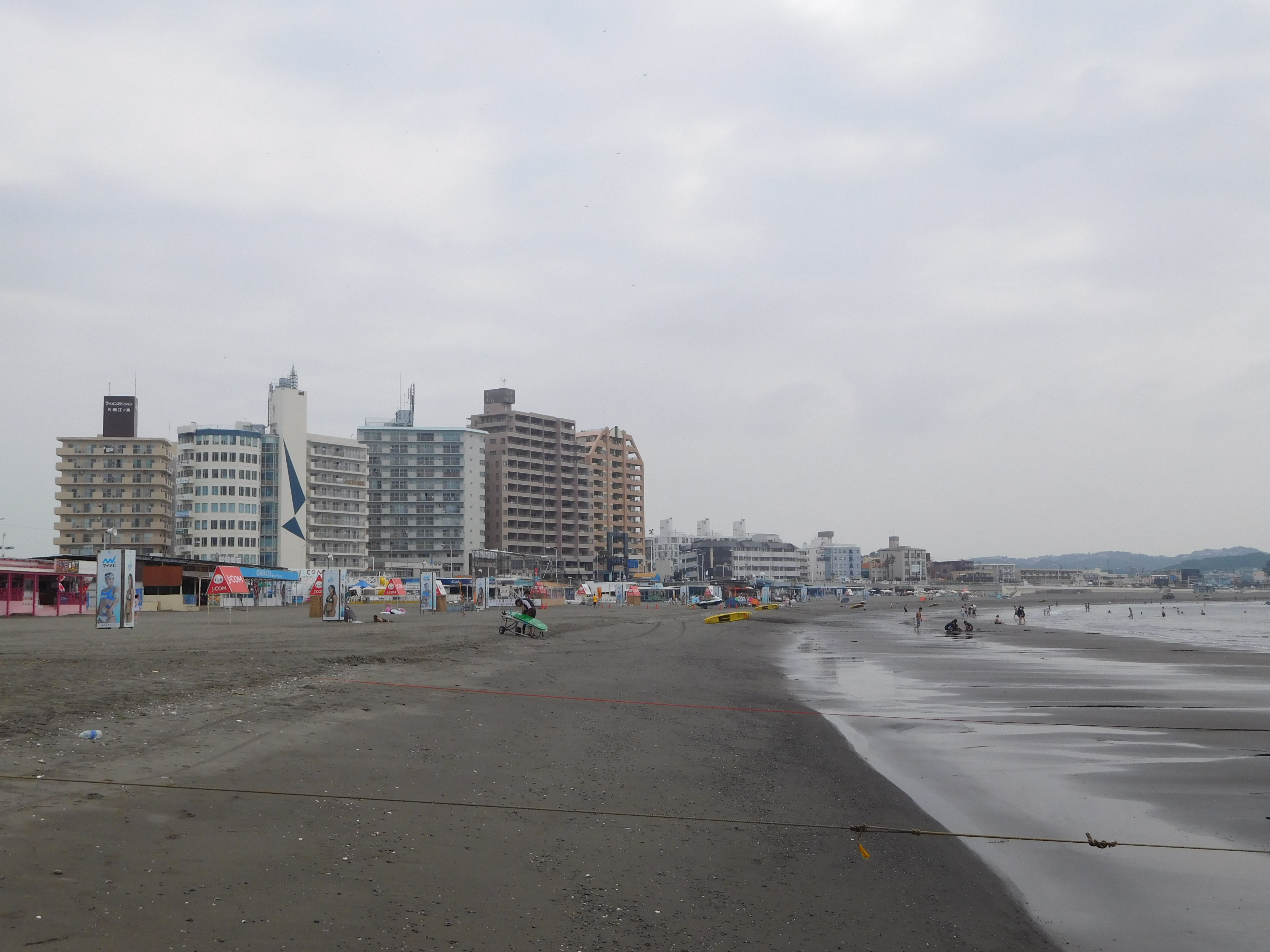 This is Katase East Beach in Fujisawa, Kanagawa, Japan.